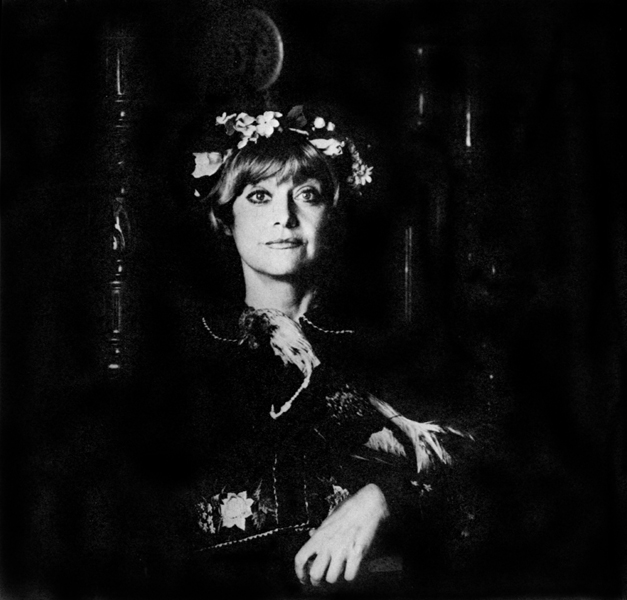 Krystyna Sienkiewicz, photo from her book "Haftowane Gałgany" 1988